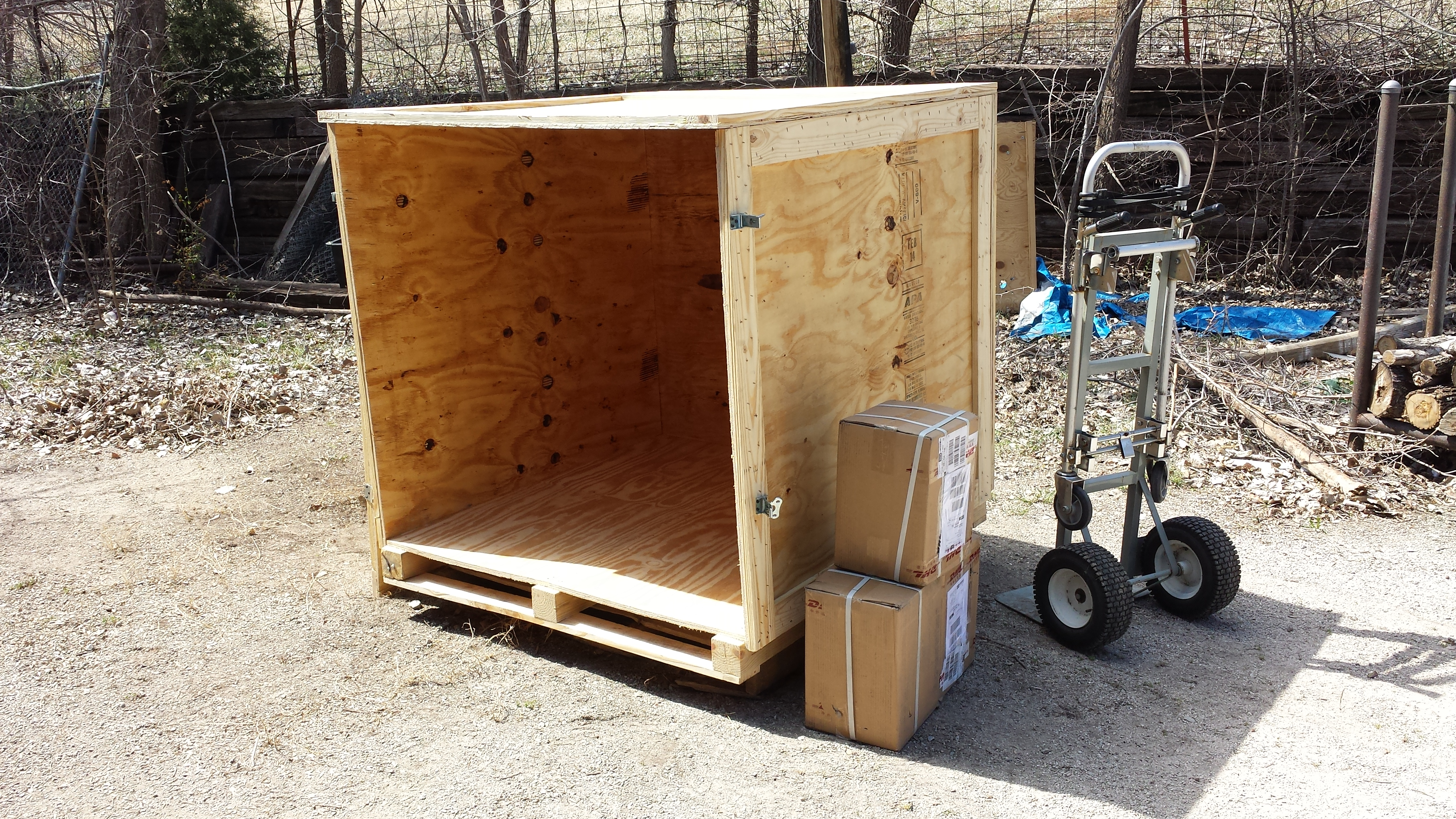 A plywood sheathed crate with a hand-truck for scale